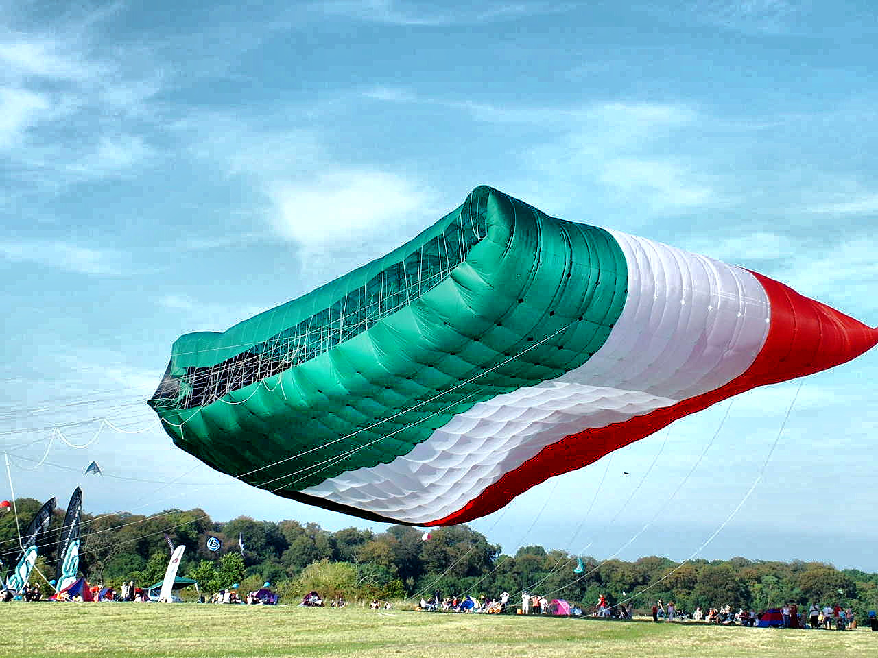 Kuwait Flag Kite - The largest in the world Some data about the kite: The laid out flat size of the Kite is 42m x 25m (1050sq.m.). While flying it becomes a little smaller than this because of curvature of the edges when inflated, about 900sq.m. The Kite took 750 hours to make, weighs approximately 180kgms and used 2500sq.m of specially loomed 50gm/sq.m ripstop nylon. The main flying line is 25 tonne breaking strain. Uniquely, this kite has a safety take down system that causes the kite to invert, deflate and descend to the ground in seconds. The safety take down line was anchored to a refrigerated lorry that, as the driver said "If this baby gets loose - I'm not stopping till i hit the beach" When inflated, the upper skin is 7m away from the lower skin - 3 people could stand on each other's heads and not reach the top. More than 1000 people could comfortably stand inside while it is inflated (and on the ground of course).